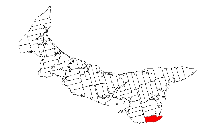 Public domain map of Prince Edward Island created by User:Plasma east with data courtesy of Geogratis, modified to show townships. Released under GFDL (self).